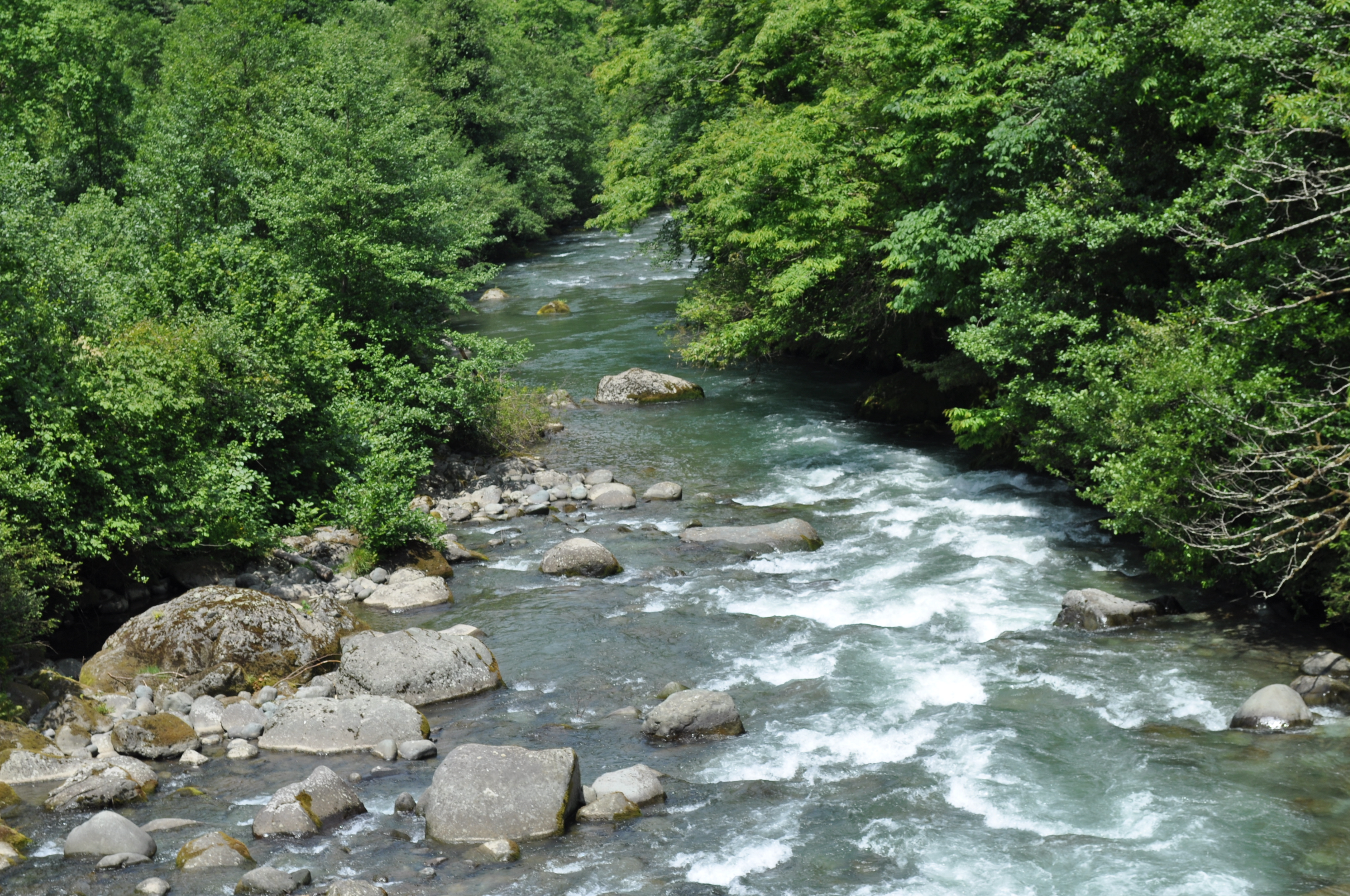 River Kintrishi valley, Adjara, Georgia